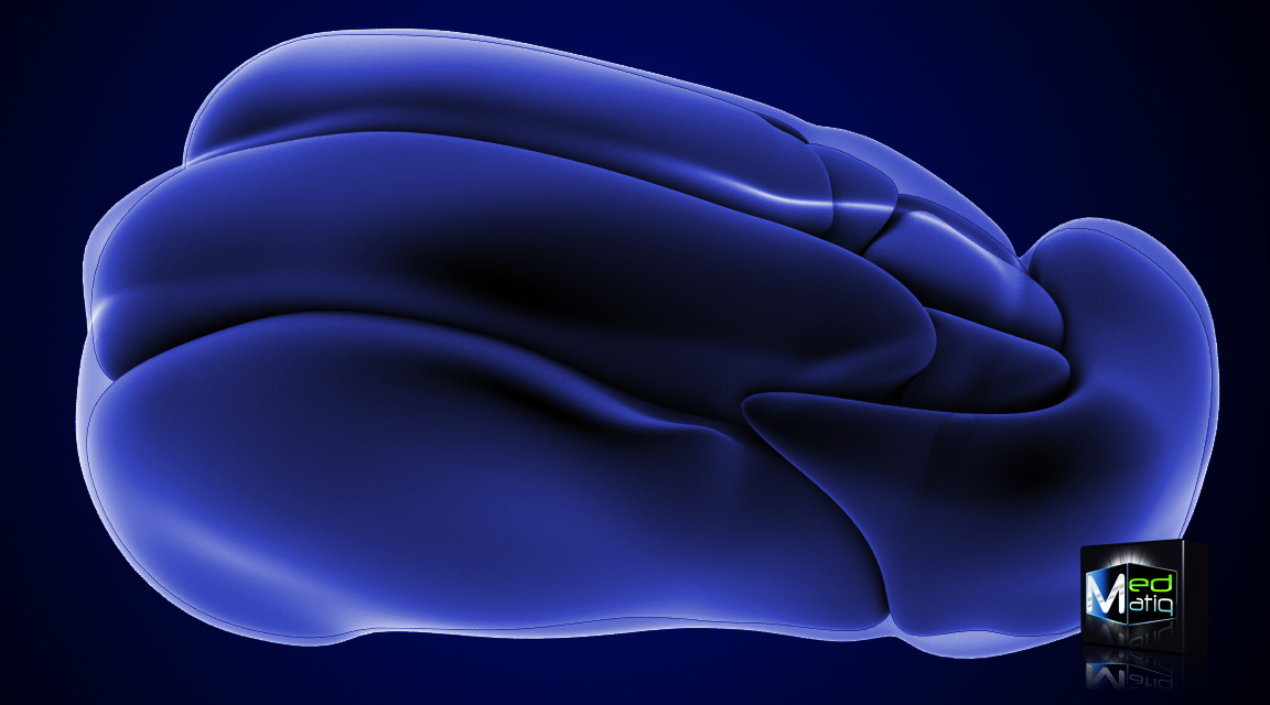 A superior vue of the thalamus and its nuclei